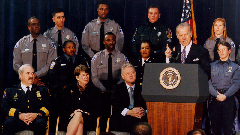 Sen. Joe Biden (D-Delaware) speaks at the signing of the 1994 Biden Crime Bill as Attorney General Janet Reno, President Bill Clinton, and local law enforcement officials look on.